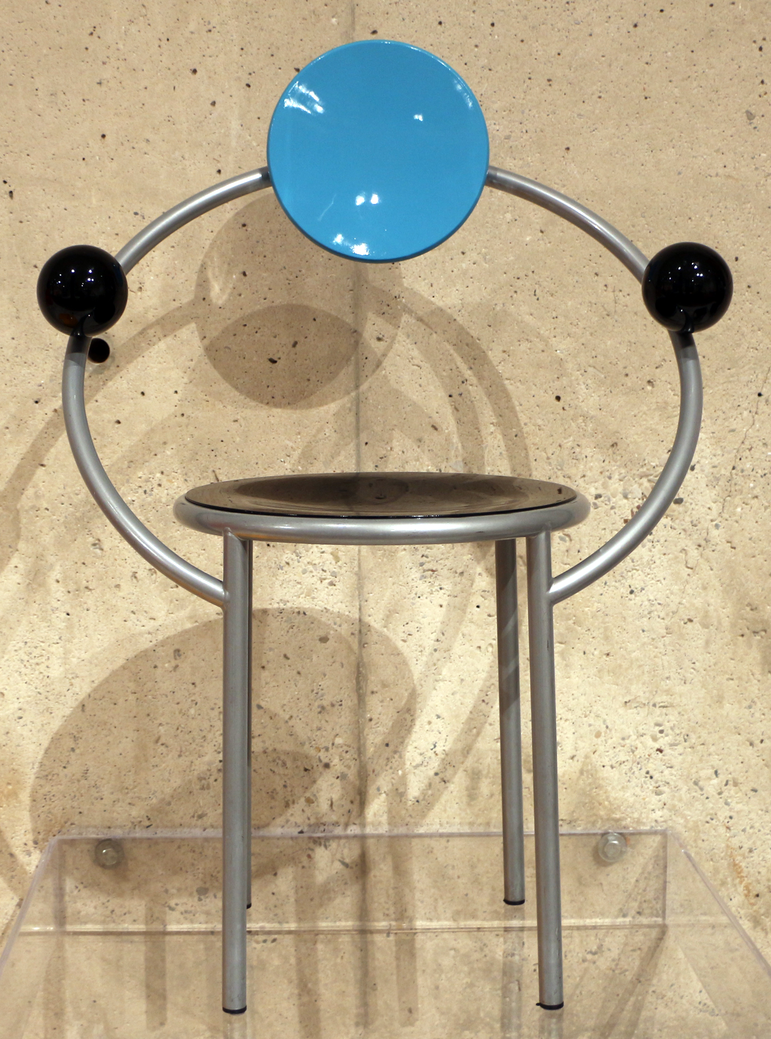 Furniture in the Milwaukee Art Museum